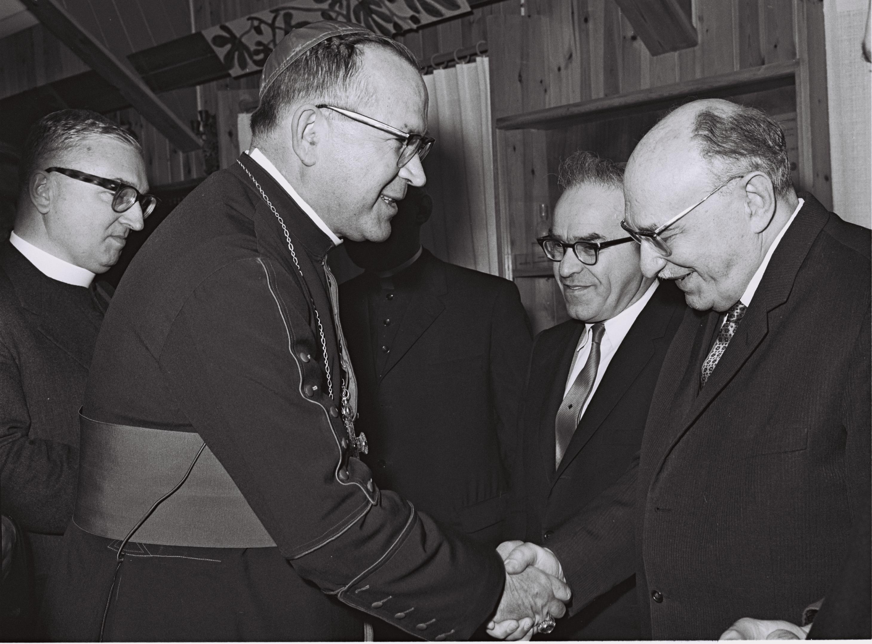 PRES. ZALMAN SHAZAR GREETING ARCHBISHOP MAURICE BADOUX OF SAINT BONIFACE IN CANADA IN PRESENCE OF RELIGIONS MIN. WARHAFTIG, AT BEIT HANASSI IN JERUSALEM.